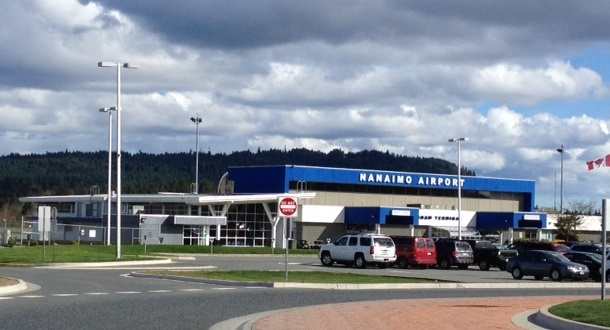 Nanaimo Airport Collishaw Terminal 2016